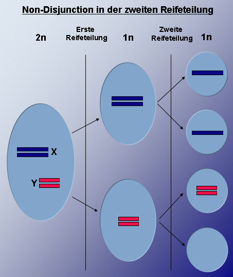 This diagram shows the chromosomal nondisjunction in the father that can result in XYY syndrome in his son. The two X chromosomes separate correctly (one per sperm cell), but the shorter Y chromosomes do not separate, which results in one cell with two chromosomes, and one cell with zero chromosomes. The sperm cells containing one X chromosome would produce healthy daughters. The sperm cell containing two Y chromosomes would produce a son with XYY syndrome. The sperm cell with no sex chromosome might produce a daughter with Turner syndrome (monosomy X).